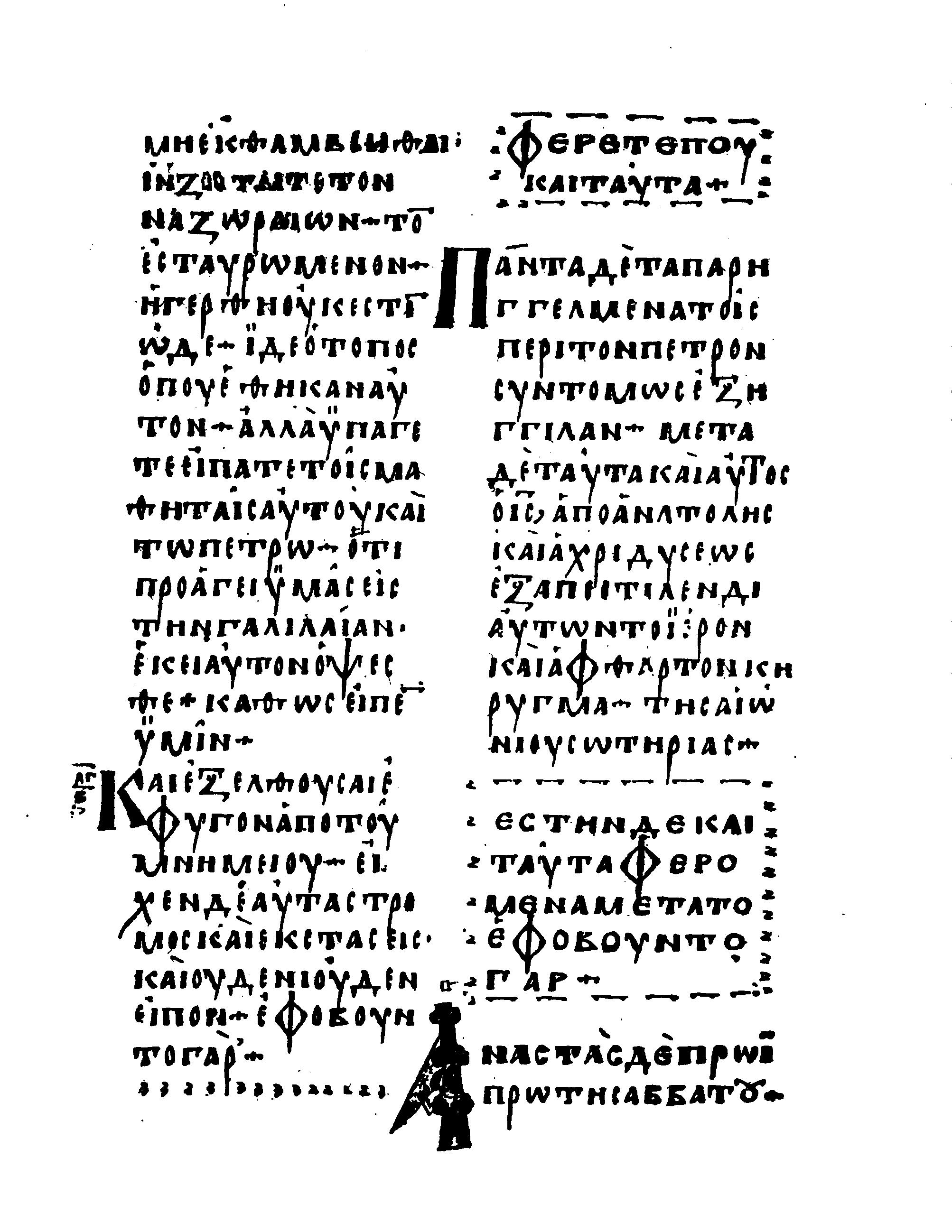 Fin de Marc